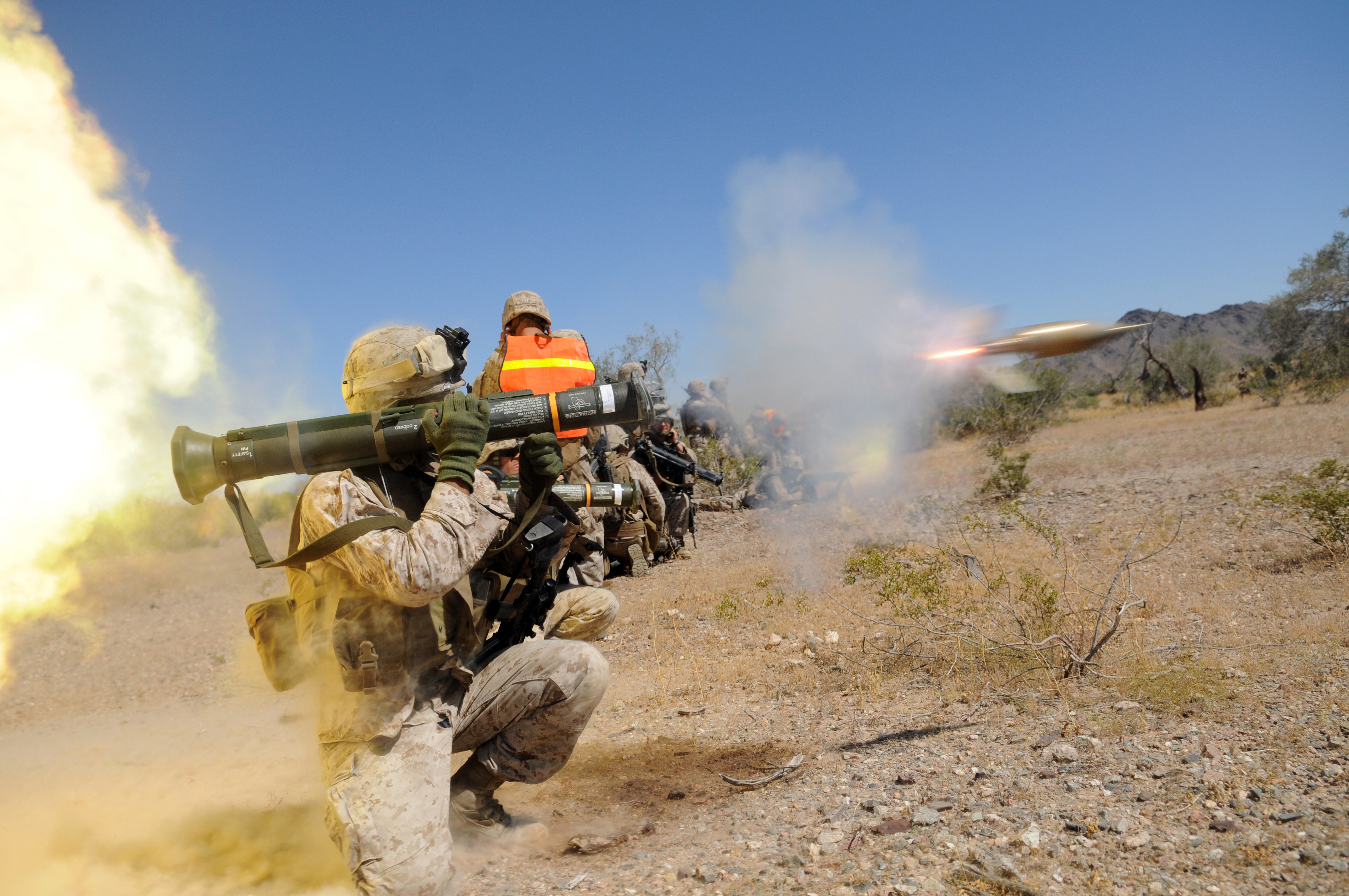 Lance Cpl. Jorge Salazar with Company B, 1st Battalion, 1st Marine Regiment, launches a rocket from an AT-4 during a helicopter-borne raid on a simulated insurgent camp in the Chocolate Mountains in California, May 3, 2010. Inserting in four different locations, via MV-22 Ospreys, CH-46 Sea Knights and CH-53 Super Stallions, Companies B and C, along with the Weapons Company, assaulted the camp with small-arms fire and rockets. Here supporting the current Weapons and Tactics Instructor course, the Camp Pendleton, Calif.-based unit is also training for a deployment early next year with the 13th Marine Expeditionary Unit.